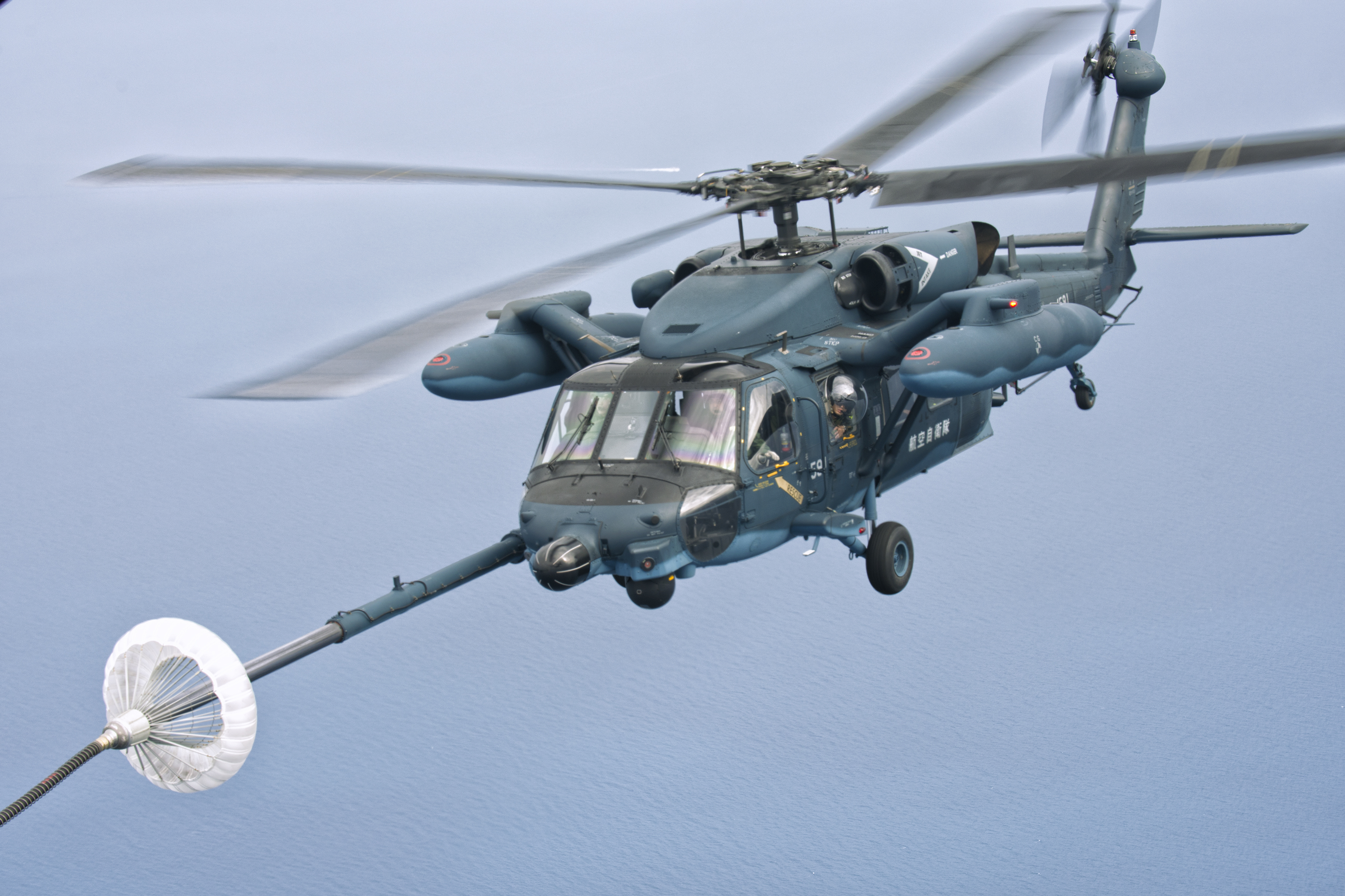 a Japanese Air Self Defense Force UH-60J helicopter (08-4591) from Komatsu Air Base refuels in the air from a MC-130P of the American 353d Special Operations Group over the Sea of Japan. The chopper is assigned to the rescue squadron at Komatsu Nikon D600